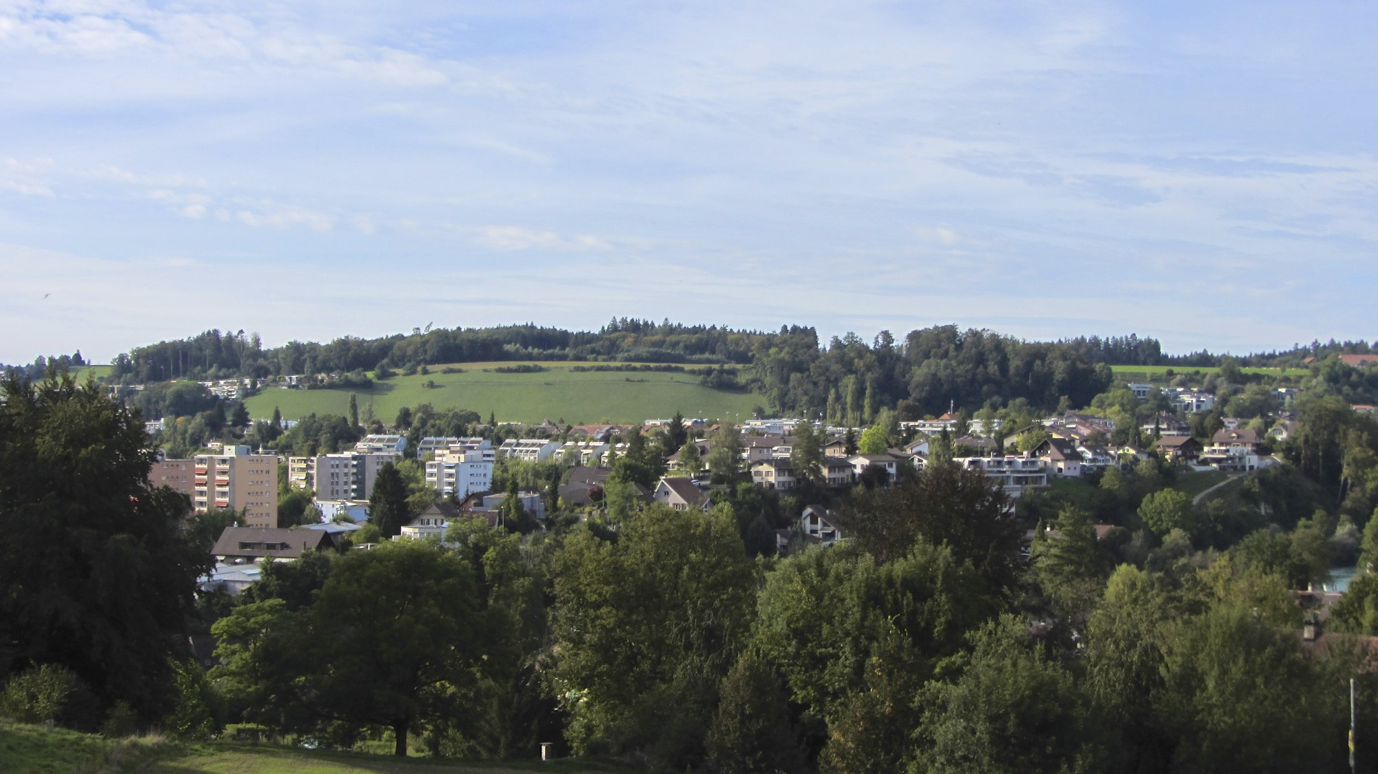 Bremgarten bei Bern, Switzerland, view from south-east